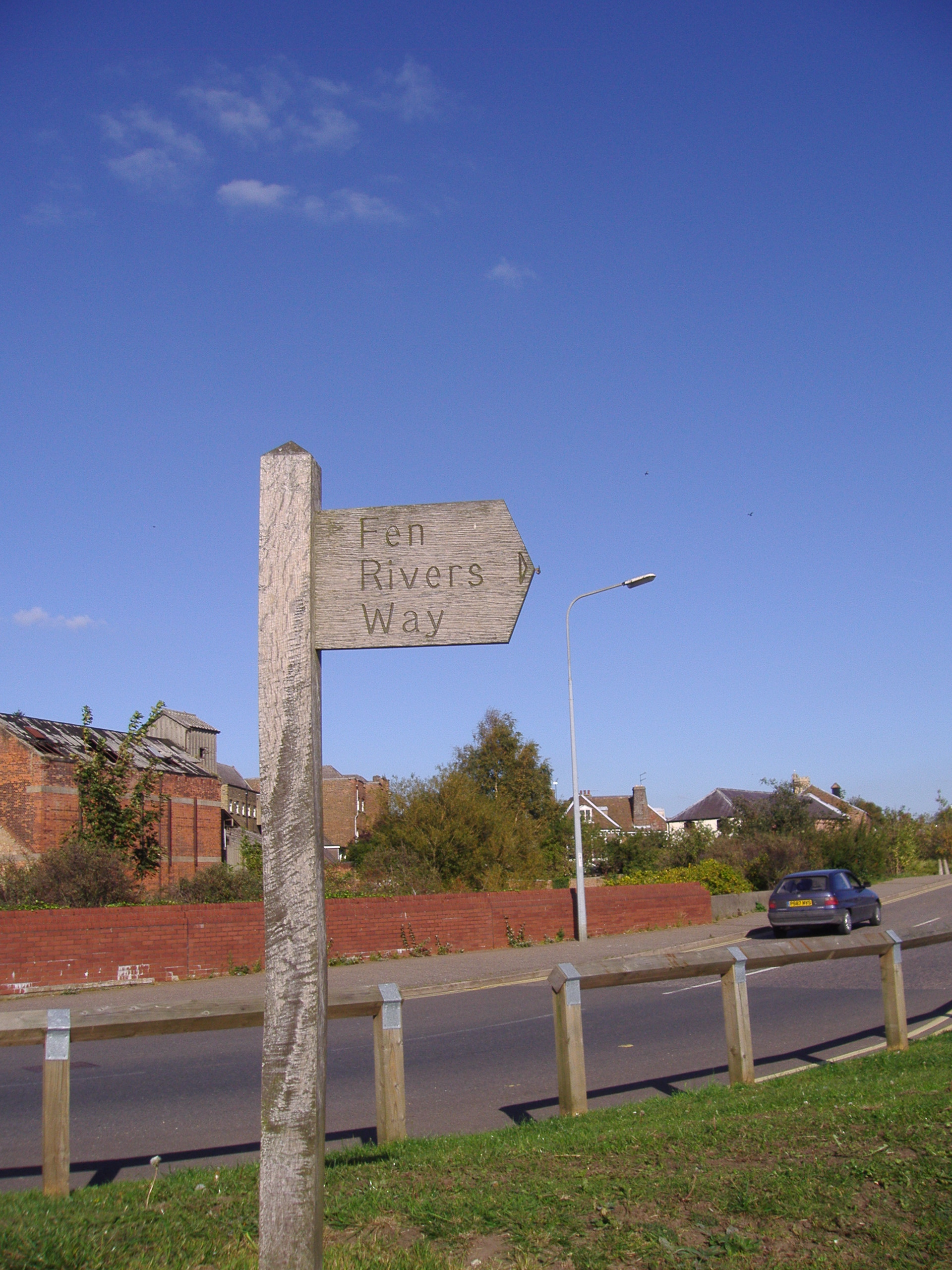 A Digital Photograph of Sign Post taken on the 4th October 2007 at Kings Lynn